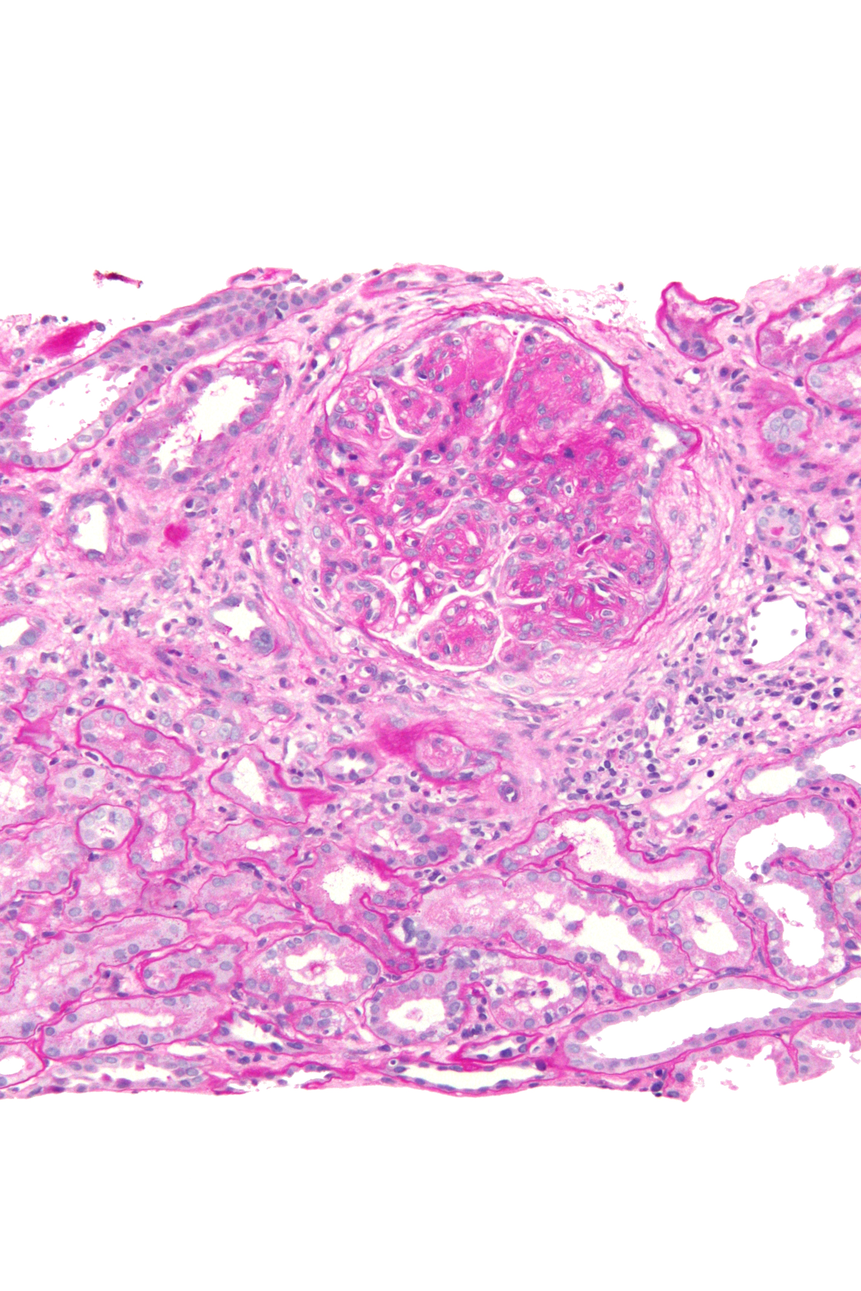 High magnification micrograph of membranoproliferative glomerulonephritis, abbreviated MPGN. PAS stain. Kidney biopsy. The most common cause of MPGN is hepatitis C. Related images Intermed. mag. High mag. Very high mag.